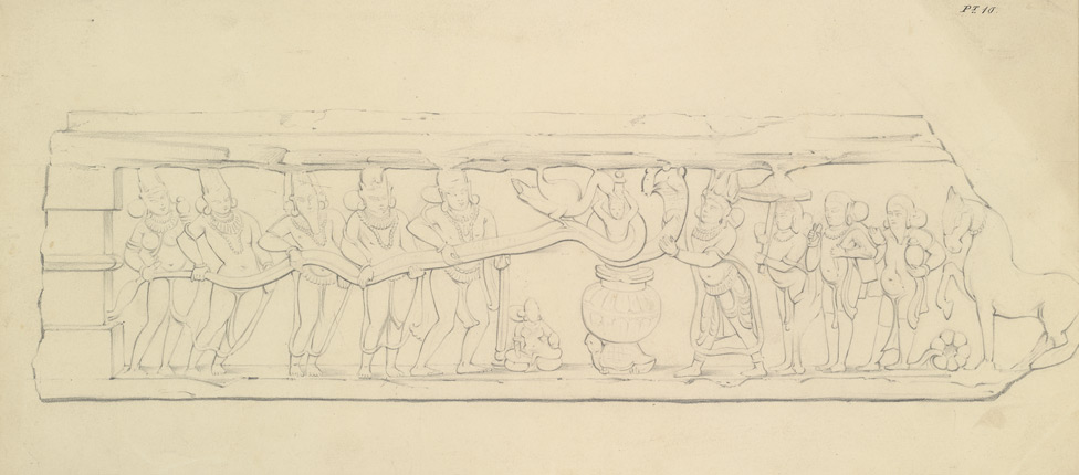 'Kurma Avatar.' The churning of the cosmic ocean. Bas relief from temple of Nilkanth